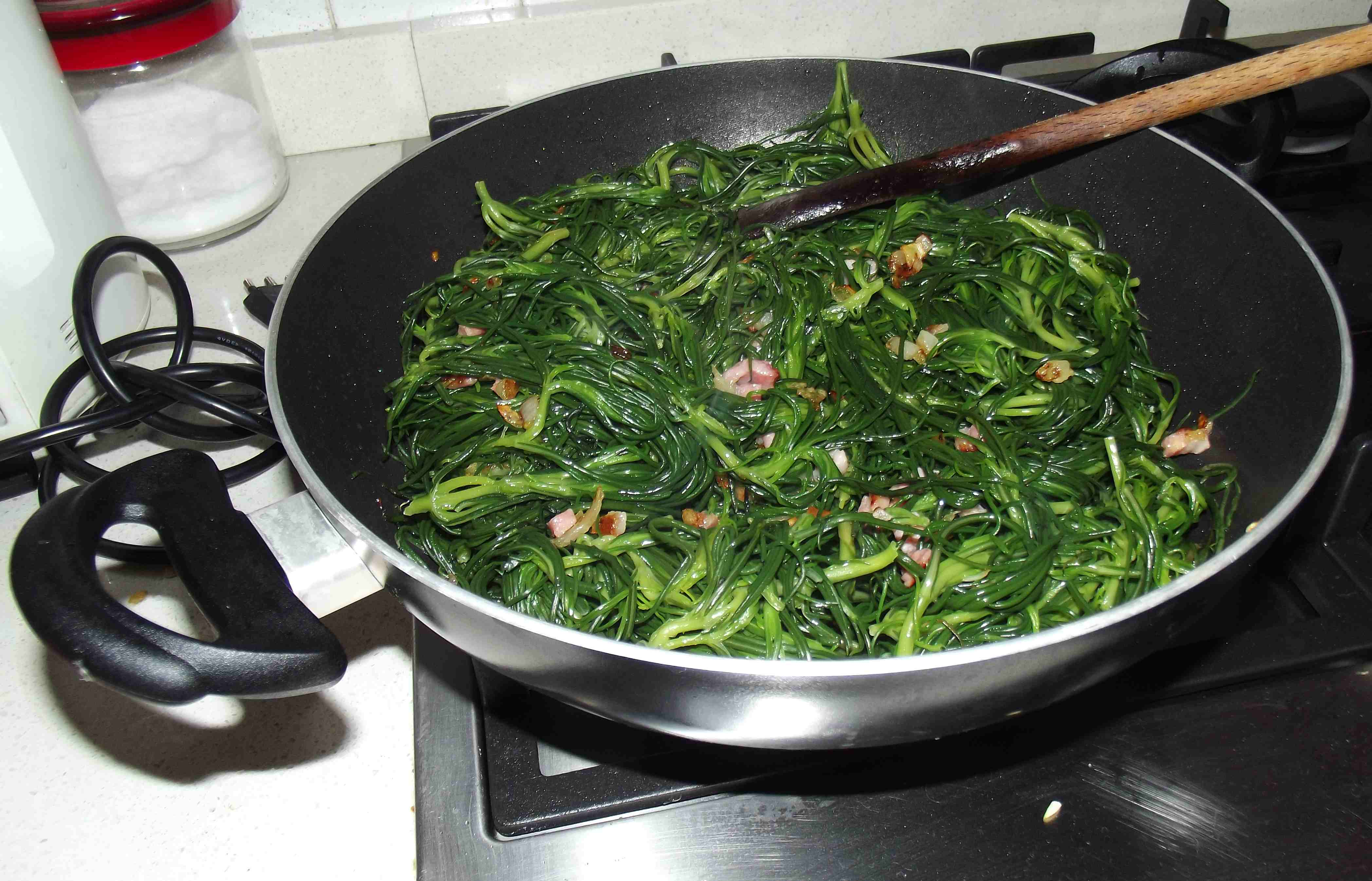 Opposite-leaved saltwort fried with onions and bacon